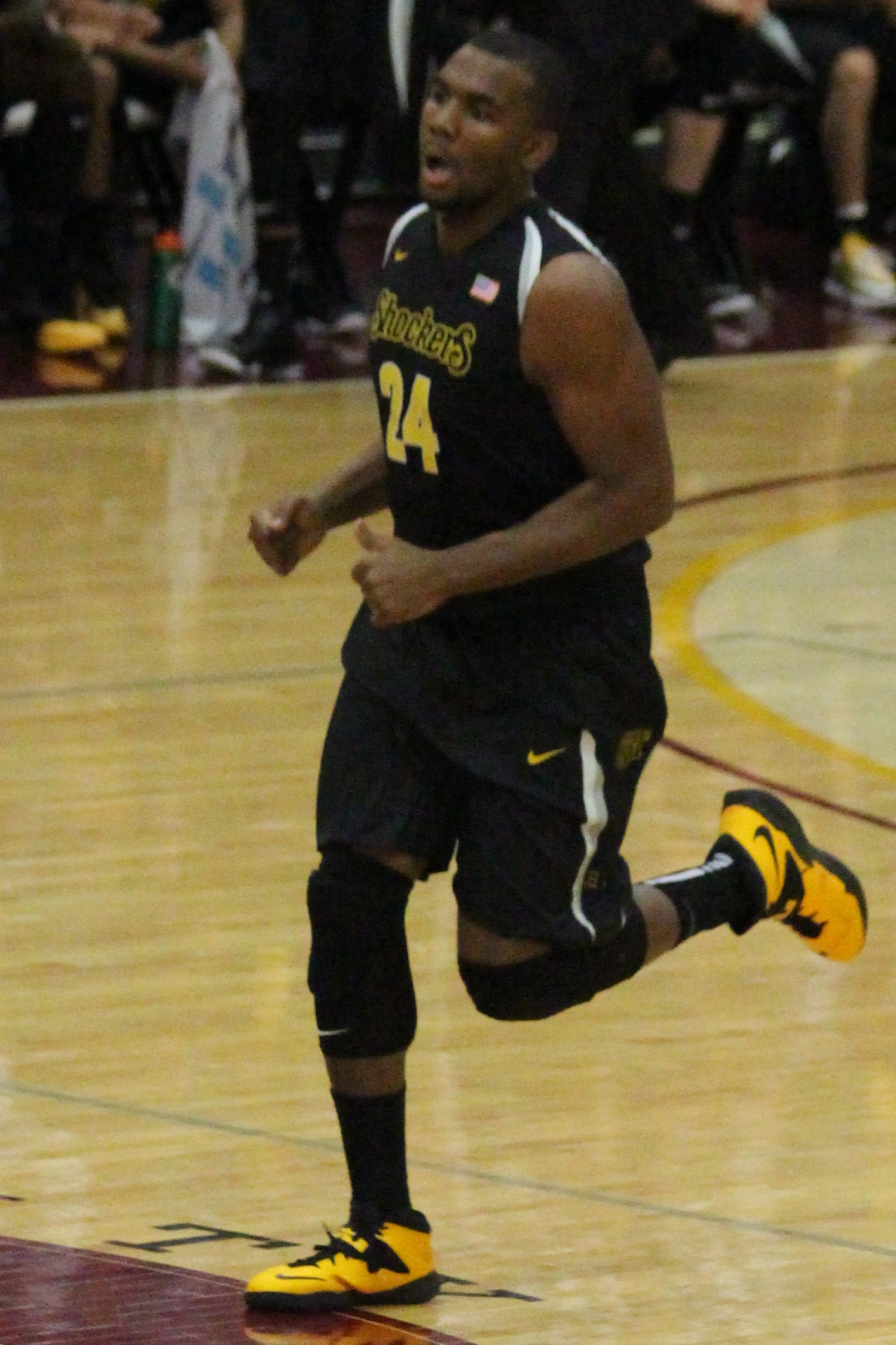 Shaquille Morris for the w:2014–15 Wichita State Shockers men's basketball team at the Joseph J. Gentile Arena